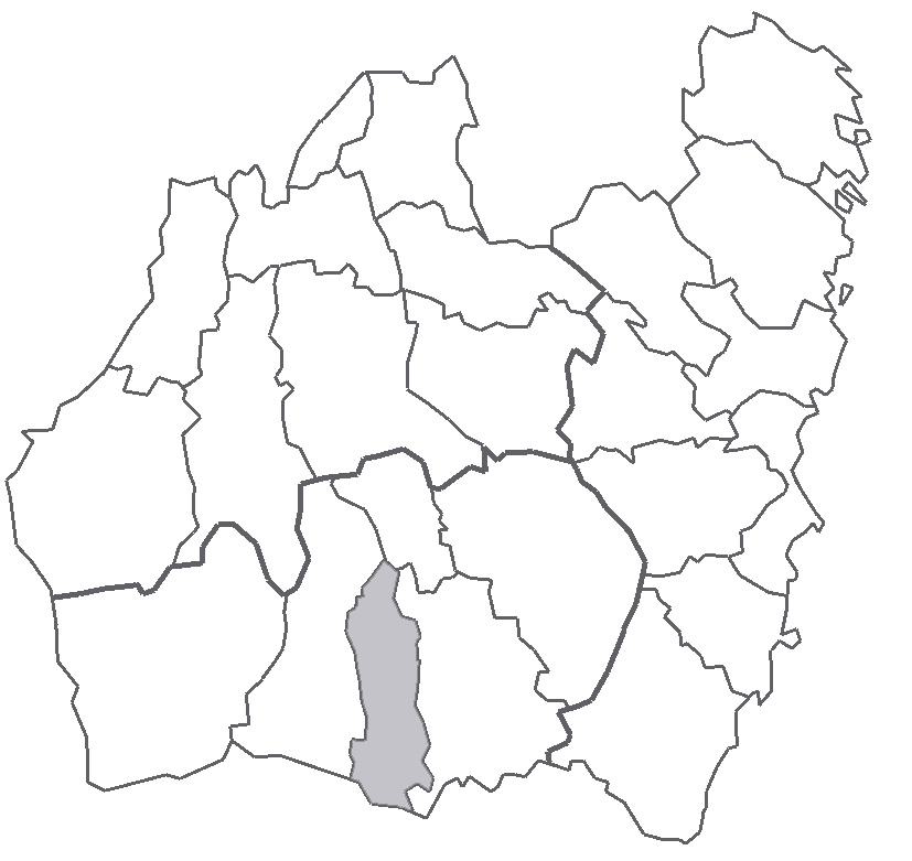 Map describing the location of Kinnevald Hundred in the province of Småland, Sweden.